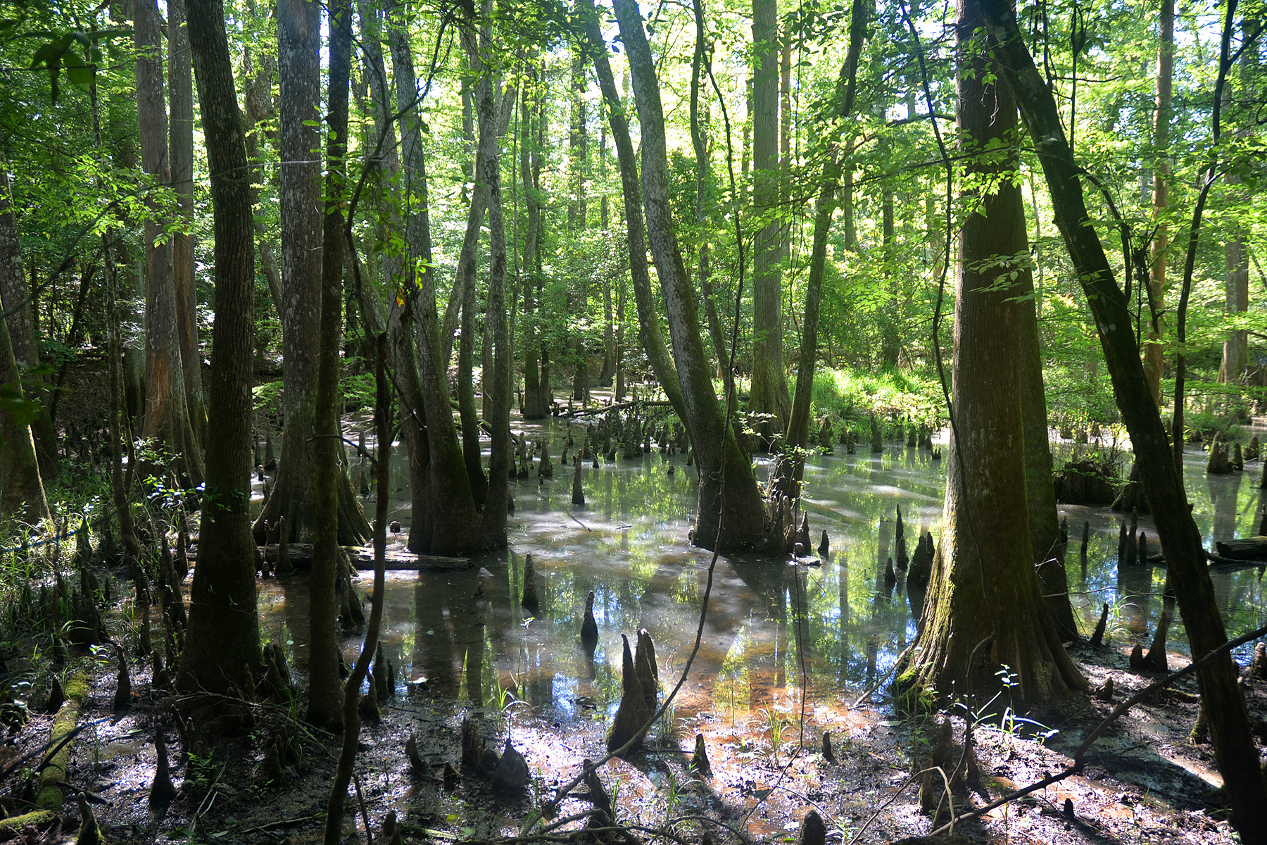 A cypress slough near Turkey Creek dominated by bald cypress (Taxodium distichum) and water tupelo (Nyssa aquatica). Big Thicket National Preserve, Turkey Creek Unit, Hardin Co. Texas; 16 Apr 2020